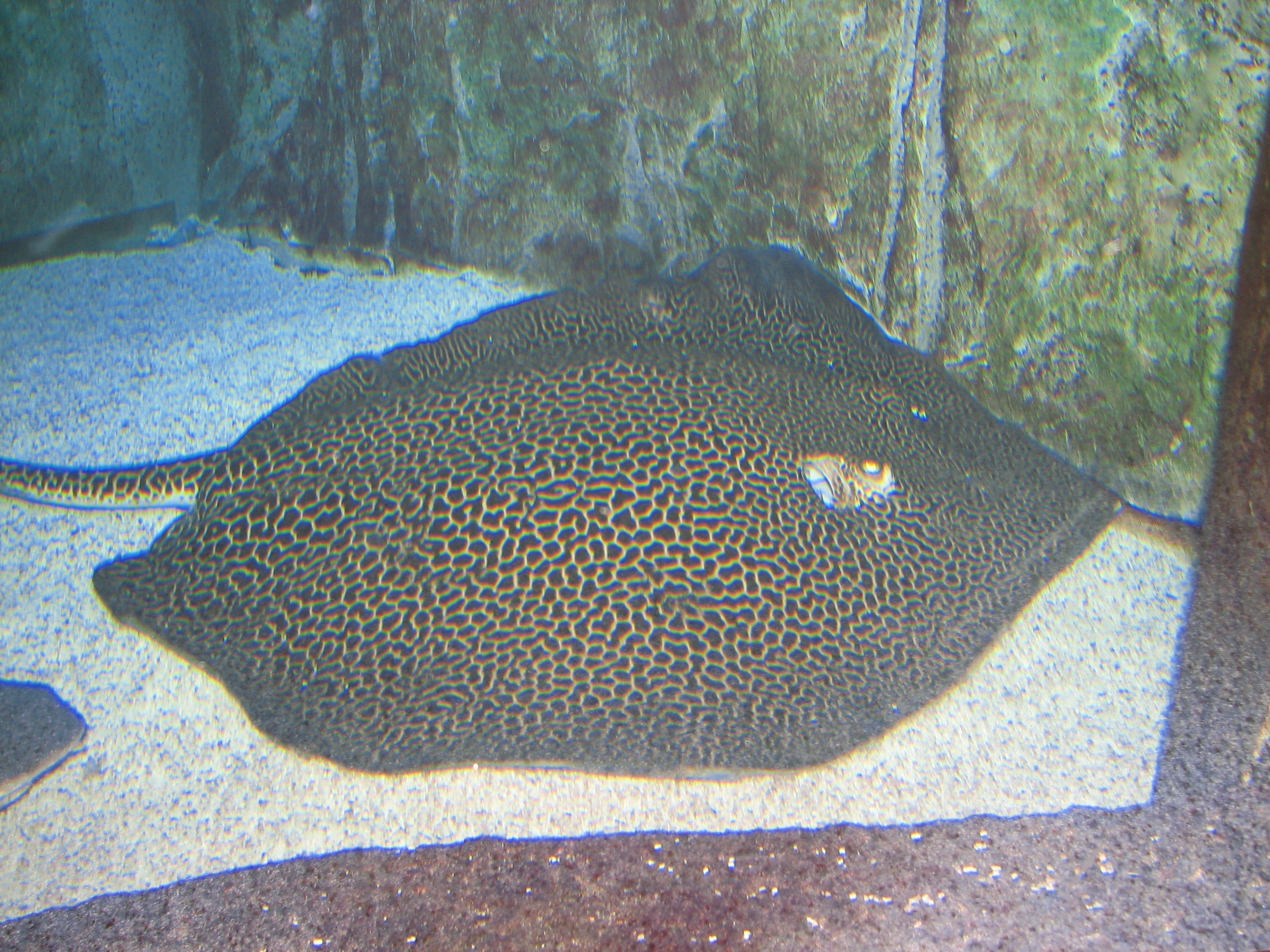 Honeycomb Whiptail Ray ( Himantura uarnak ) at Newport Aquarium, Newport Ky